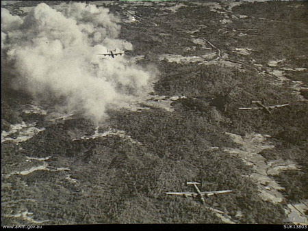 RAF and US Army Air Force B-24 Liberators bombing Japanese positions on Ramree Island.